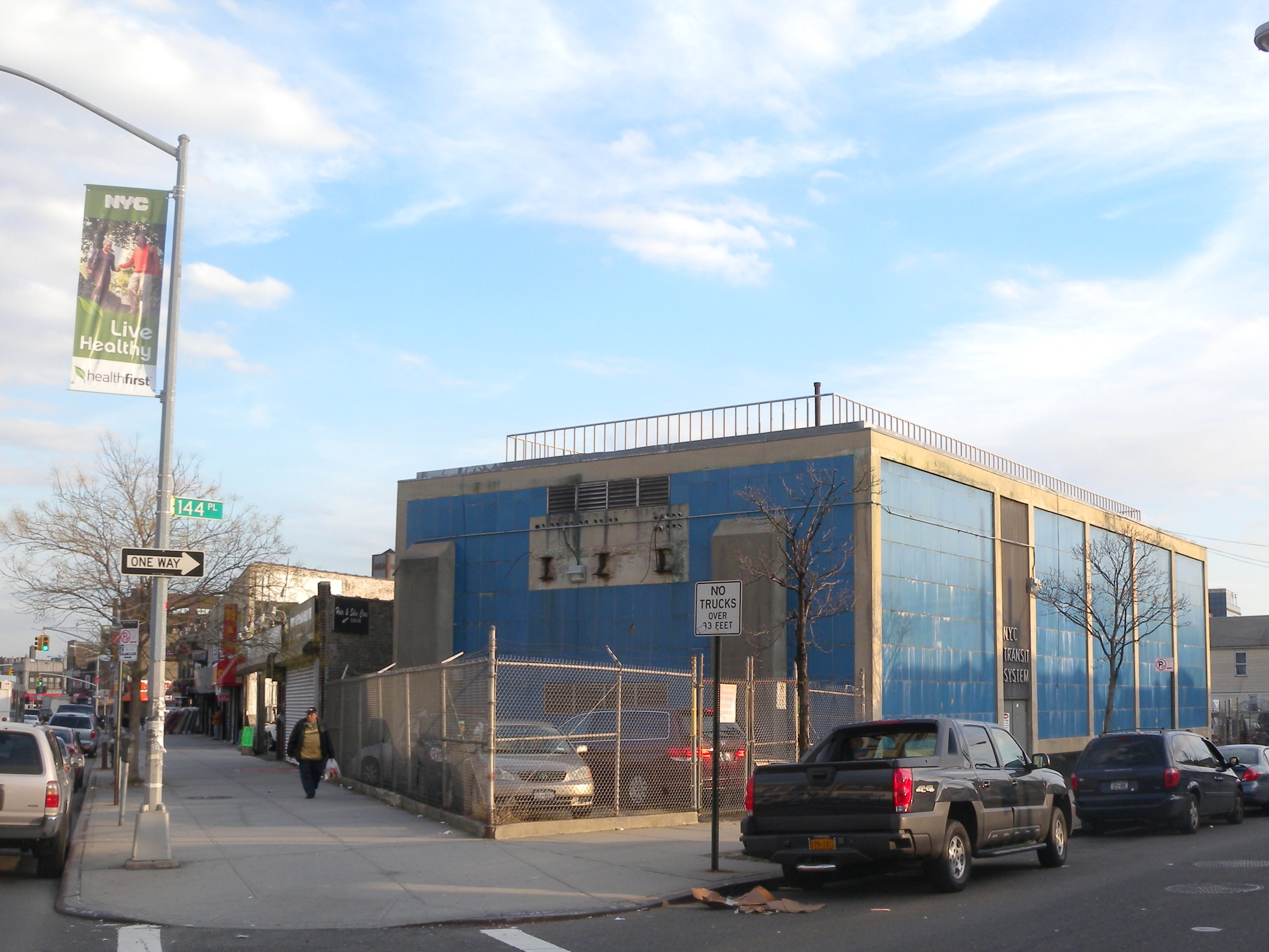 Looking southeast across 144th Street at powerhouse on a mostly cloudy afternoon.